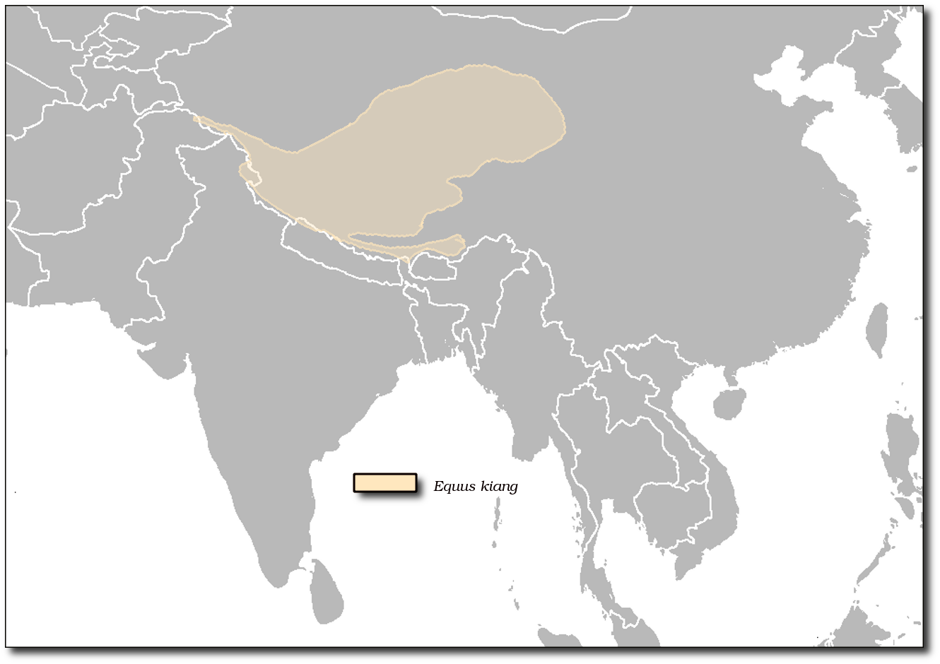 Present range of Equus kiang.